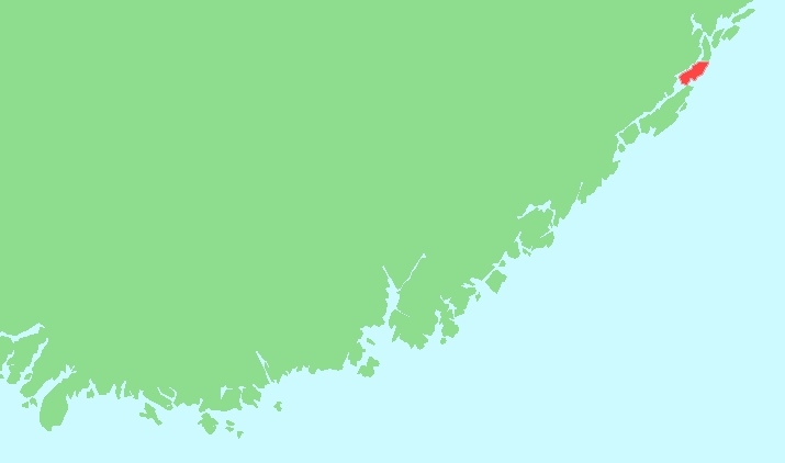 Locator map of Flostaøya, Aust-Agder, Norway